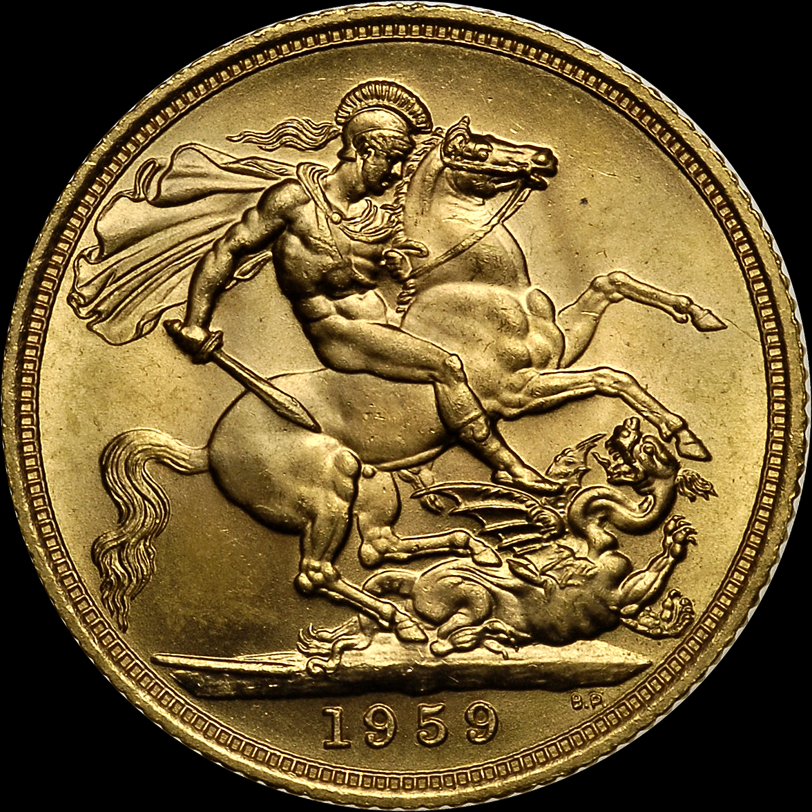 Reverse of the Elizabeth II sovereign, first type